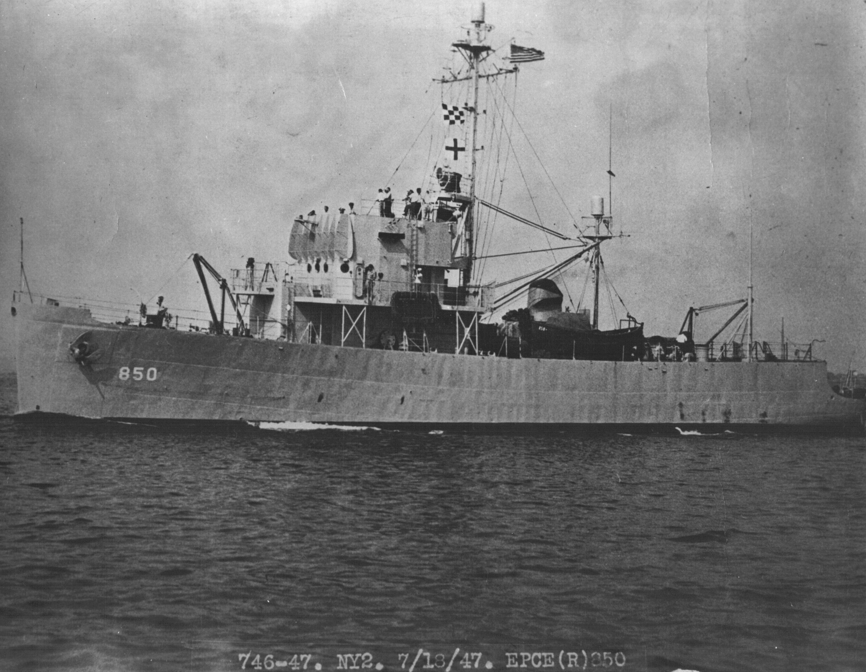 US Navy Ship EPCE(R)-850 shown under way July 18, 1947.